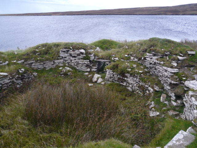 Broch at Loch of the Yarrows. The broch is now partly flooded, perhaps because the loch is a reservoir and the level has been raised.